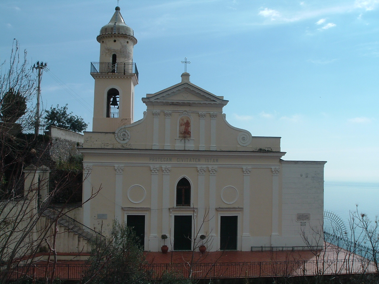 Conca dei Marini, façade of Saints John the Baptist and Anthony of Padua Parish Church.